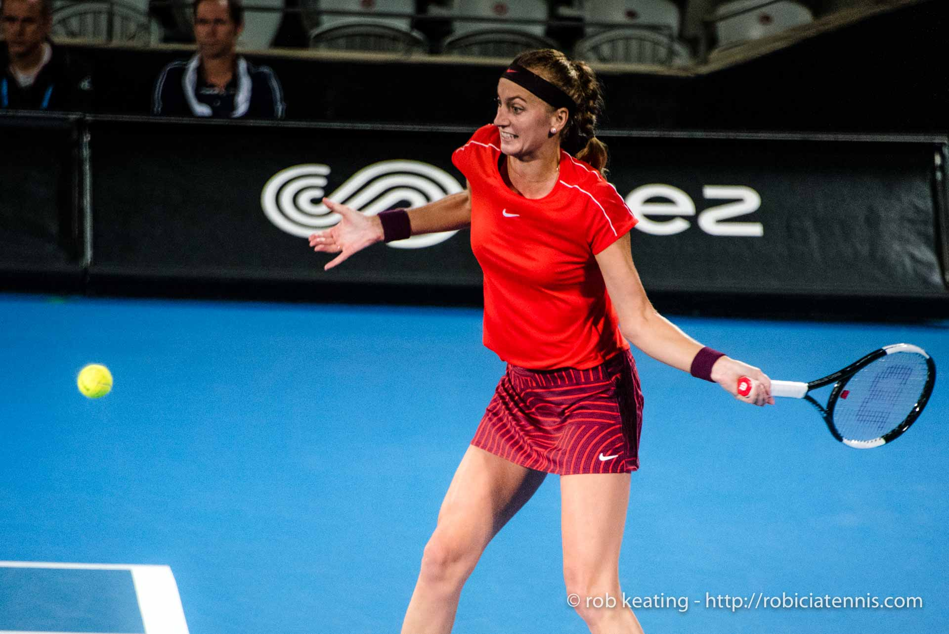 Sydney, Australia - 10 January 2019: Petra Kvitova during her Sydney International singles quarterfinal match against Angelique Kerber on Ken Rosewall Arena, Sydney Olympic Park. (Photo by Rob Keating/robiciatennis.com)